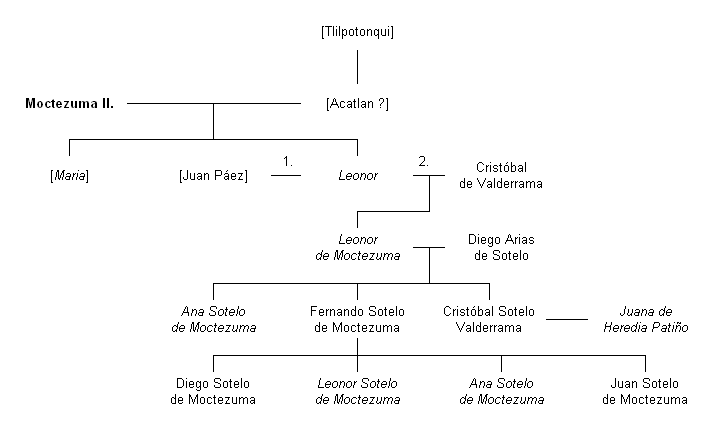 Genealogy of Leonor, daughter of Montezuma II